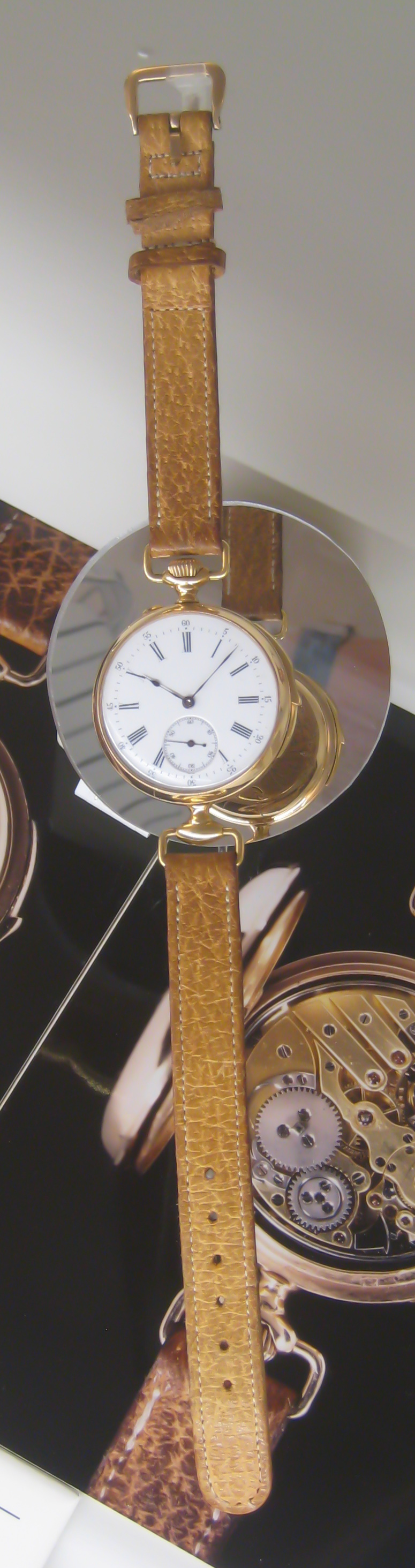 The 13" wristwatch by Louis Brandt, Switzerland, 1892; one of the first wristwatches and the world's first minute repetition wristwatch.